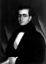 Stevens Thomson Mason (Virginia), former U.S. senator from Virginia